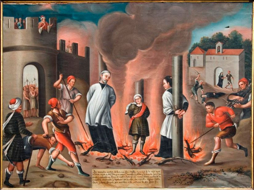 Cuadro de los Mártires de Ledesma. Finales del s. XVIII.